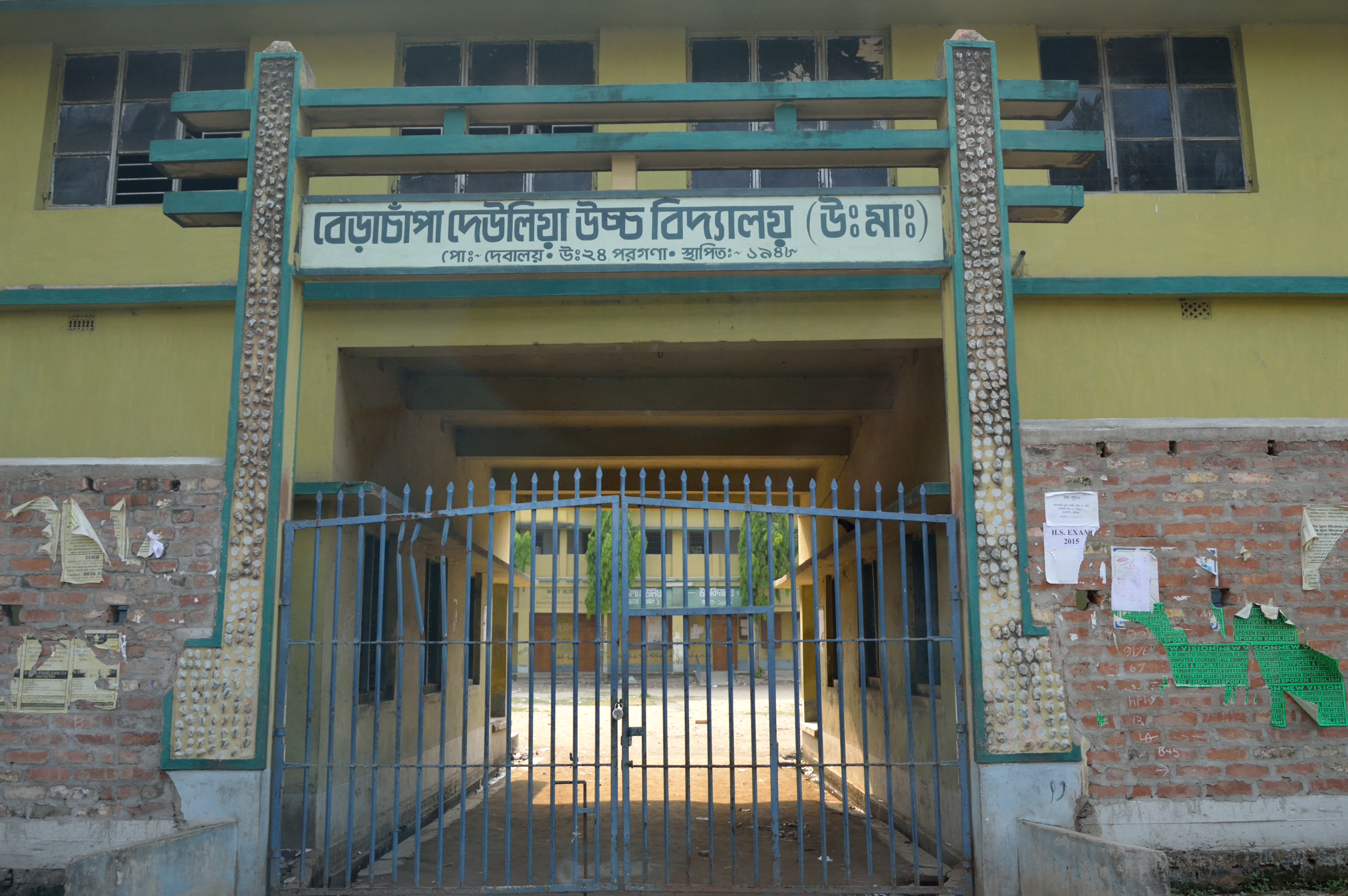 Photographed in North 24 Parganas, West Bengal.